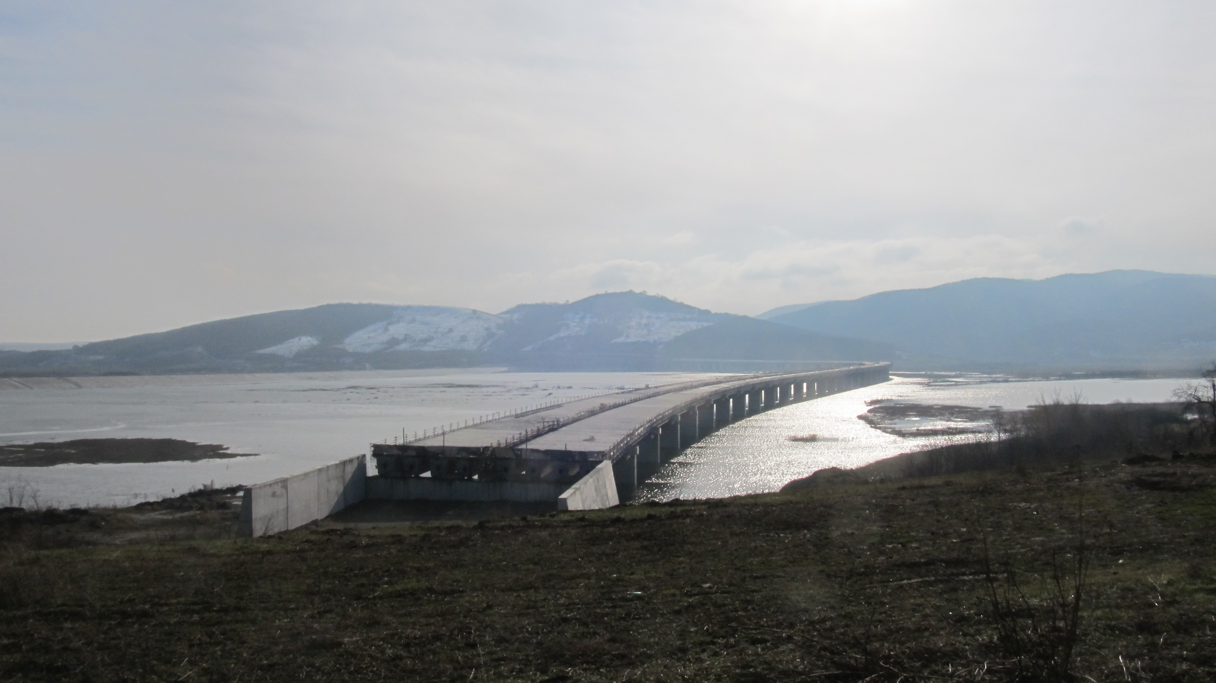 Viaduct at Suplacu de Barcău on Transylvania Motorway, part of the A3 motorway in Romania.